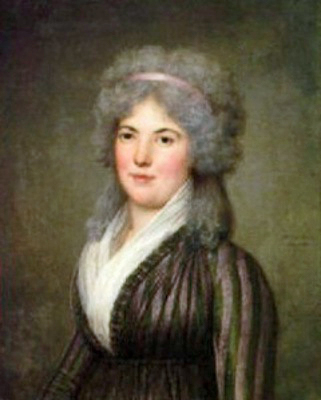 Aimée de Coigny (12 October 1769 – 17 January 1820)